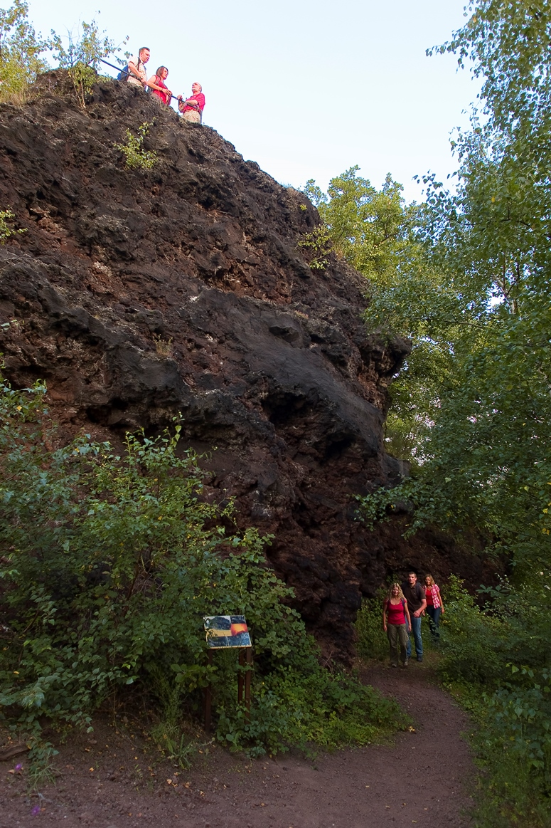 Nastberg